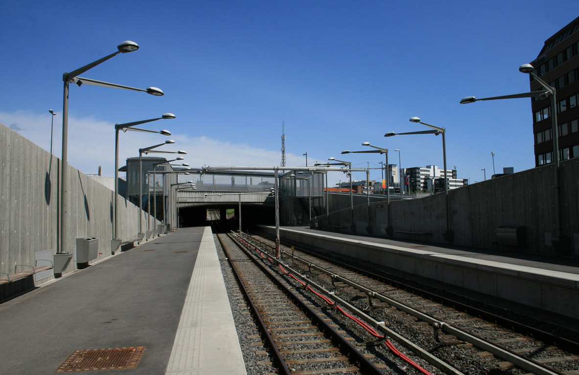 Ökern Metrostation seen from the platform to Oslo Centrum, but faced towards Rislökka.